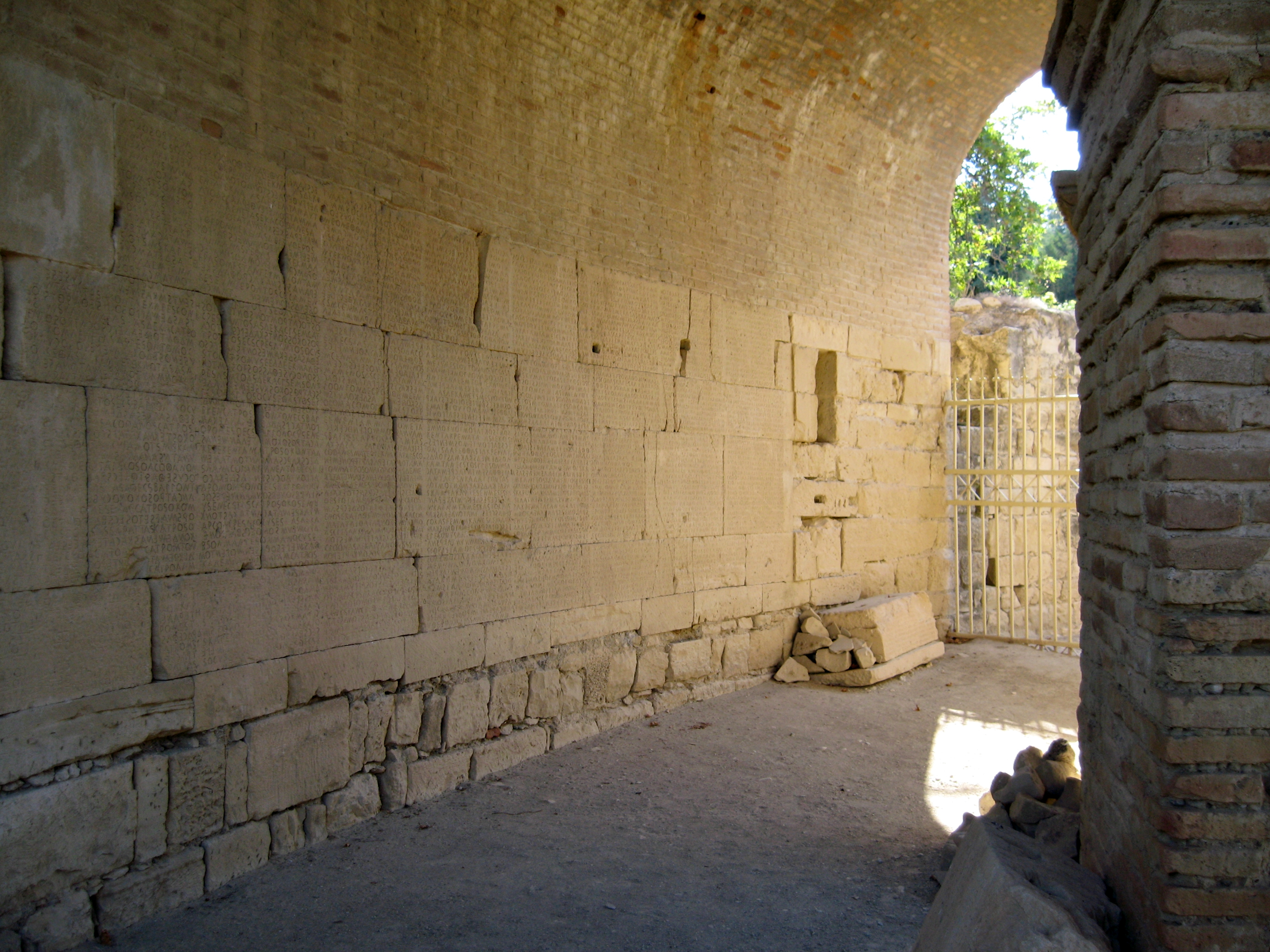 Gortyn, Crete, Greece